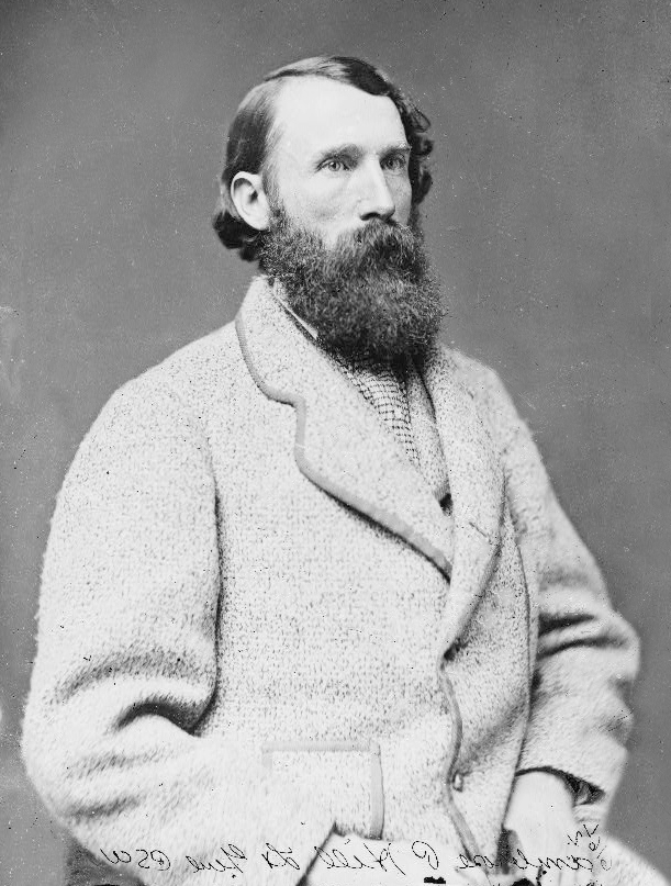 Gen. A. P. Hill, C.S.A Restored from original File:General A.P. Hill.jpg Cropped, and removed some scratches and specks.